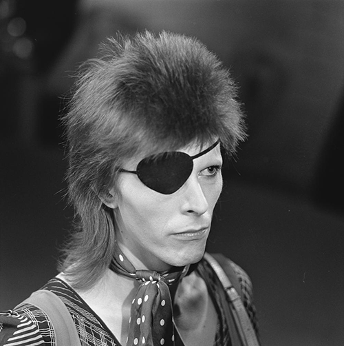 David Bowie, shooting his video for Rebel Rebel in AVRO's TopPop (Dutch television show) in 1974